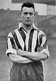 The photo shows Bobby Barclay wearing Sheffield United colours in 1933. Cropped version of [1]